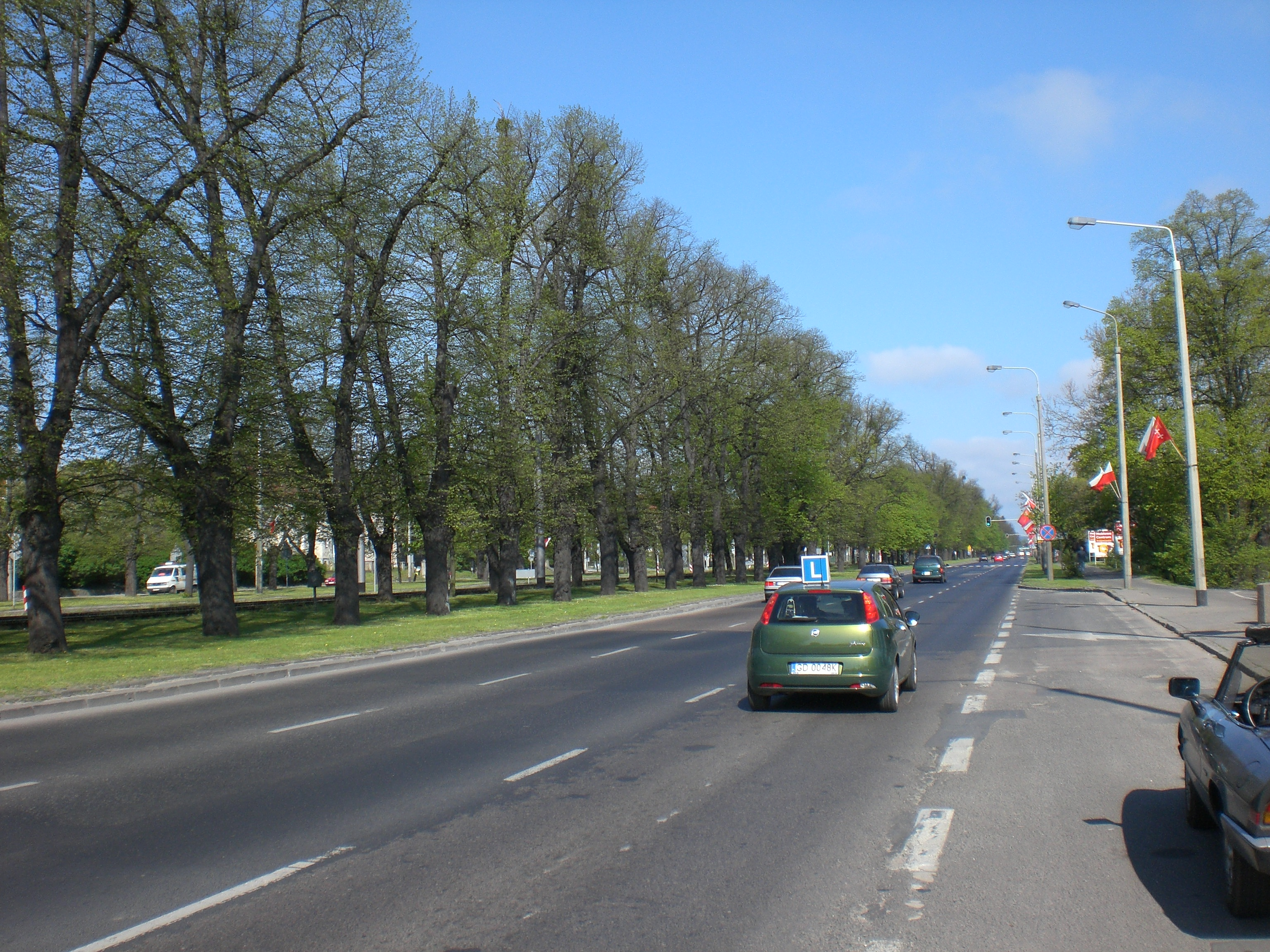 Zwycięstwa Avenue in Gdańsk.